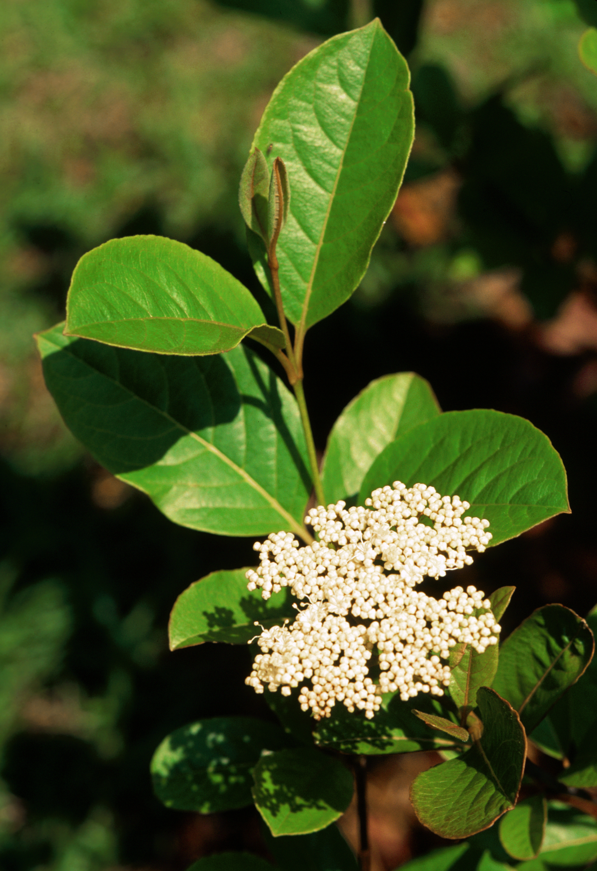 Viburnum nudum, Georgia, USA